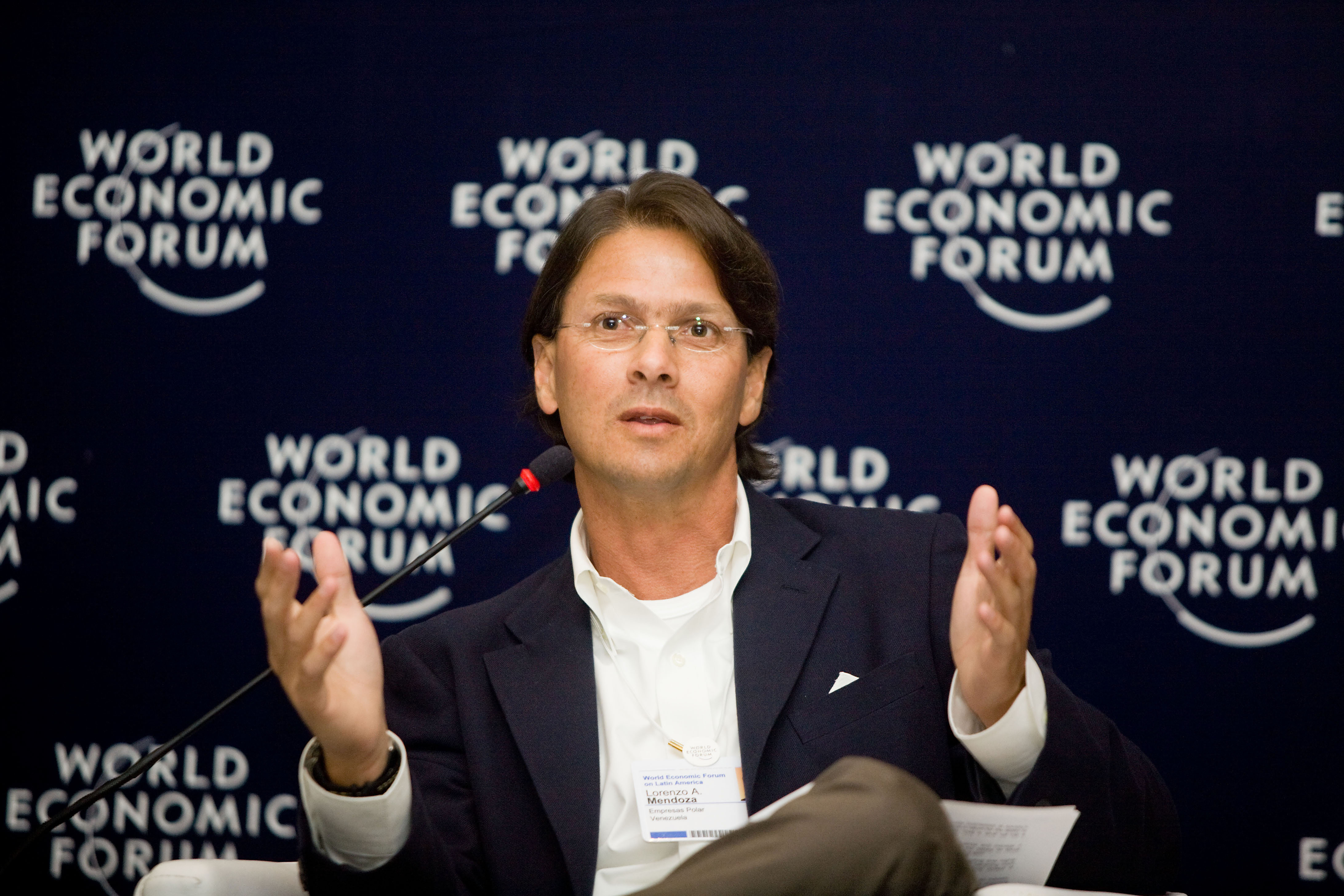 Lorenzo Mendoza, President of the Empresas Polar, spoken at the World Economic Forum on Latin America in Rio de Janeiro City, Rio de Janeiro State on April 15, 2009.